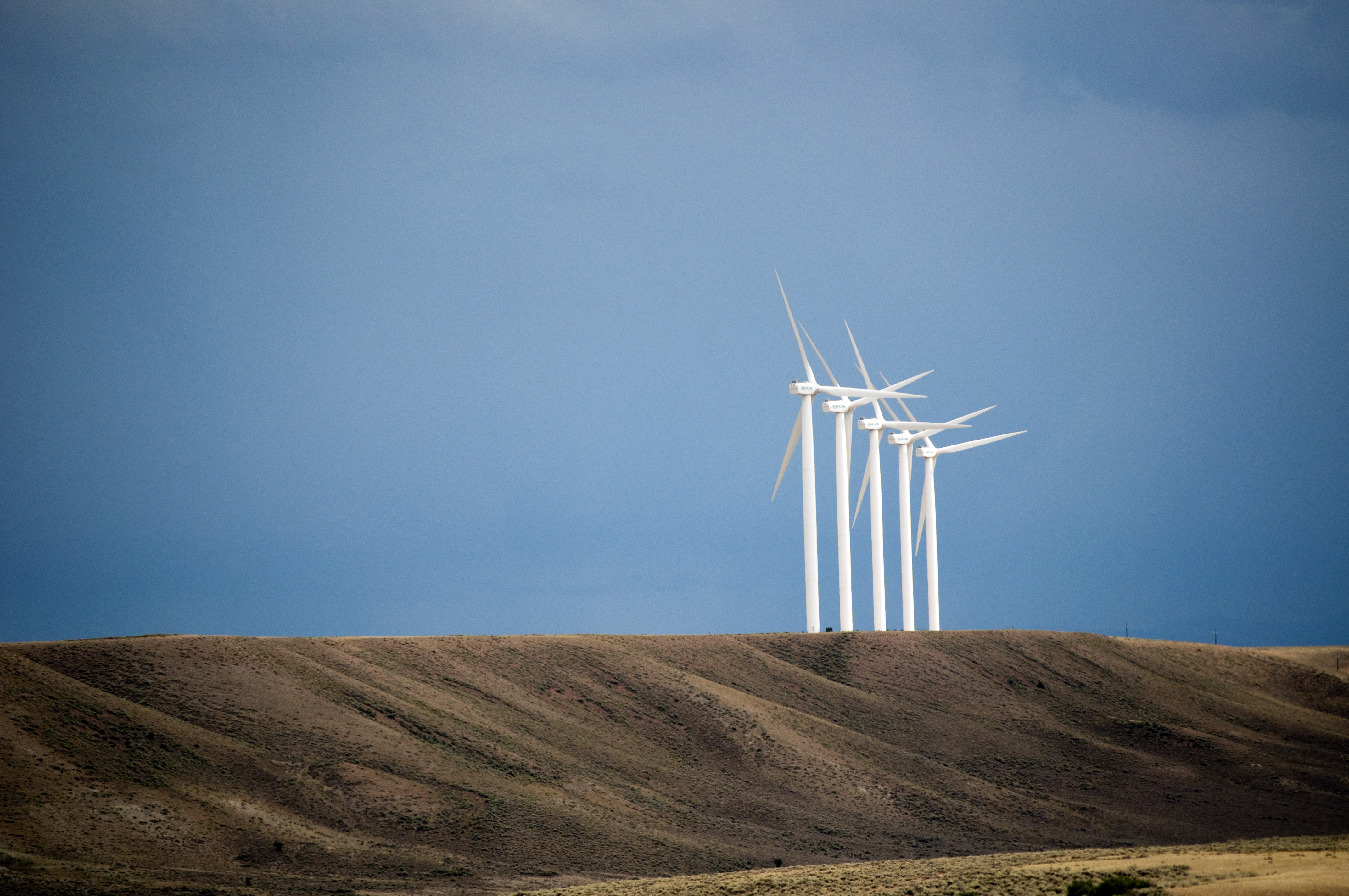 Mountain Wind Power wind turbines in Uinta County, Wyoming.